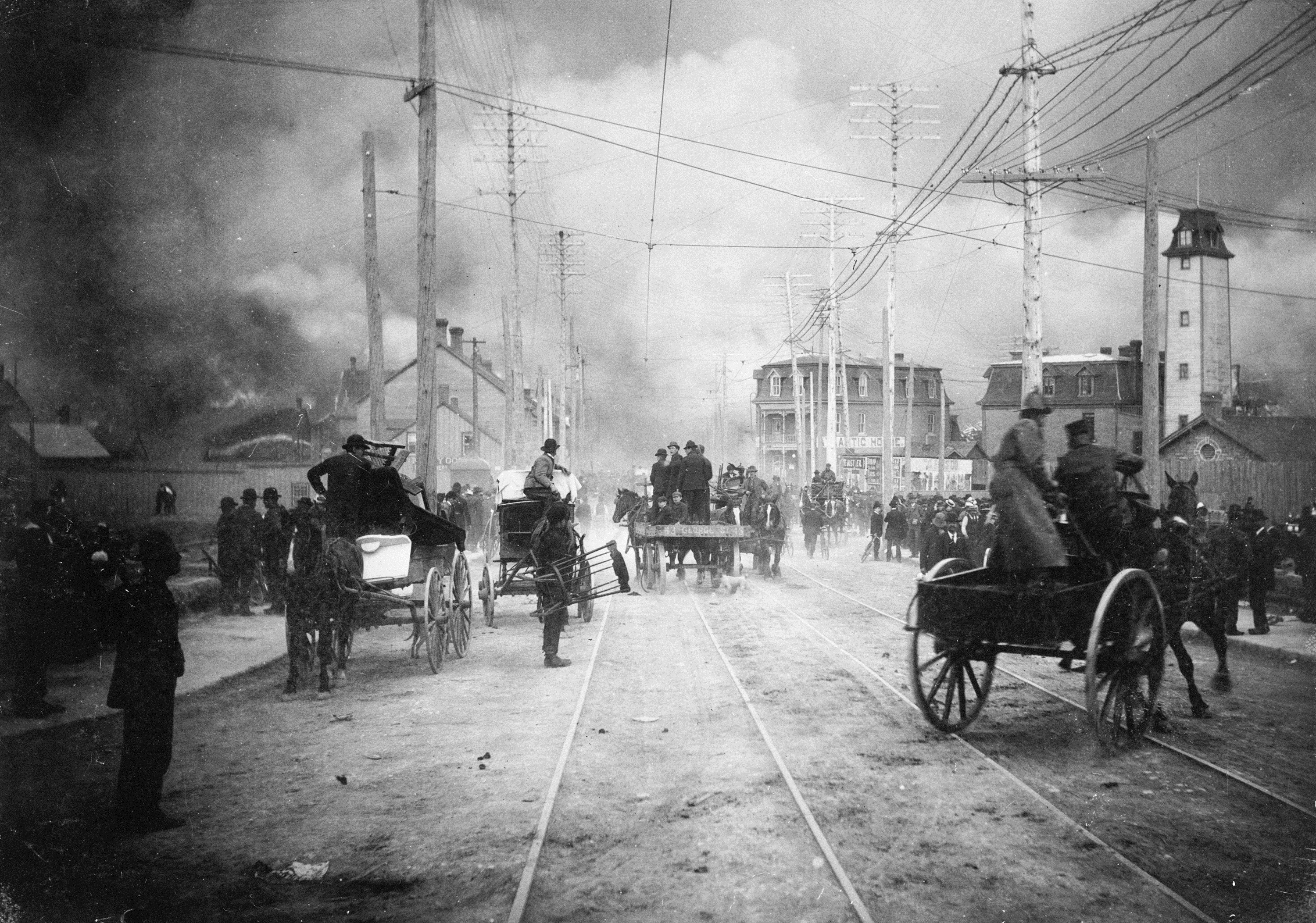 Queen street 1900 Hull-Ottawa fire